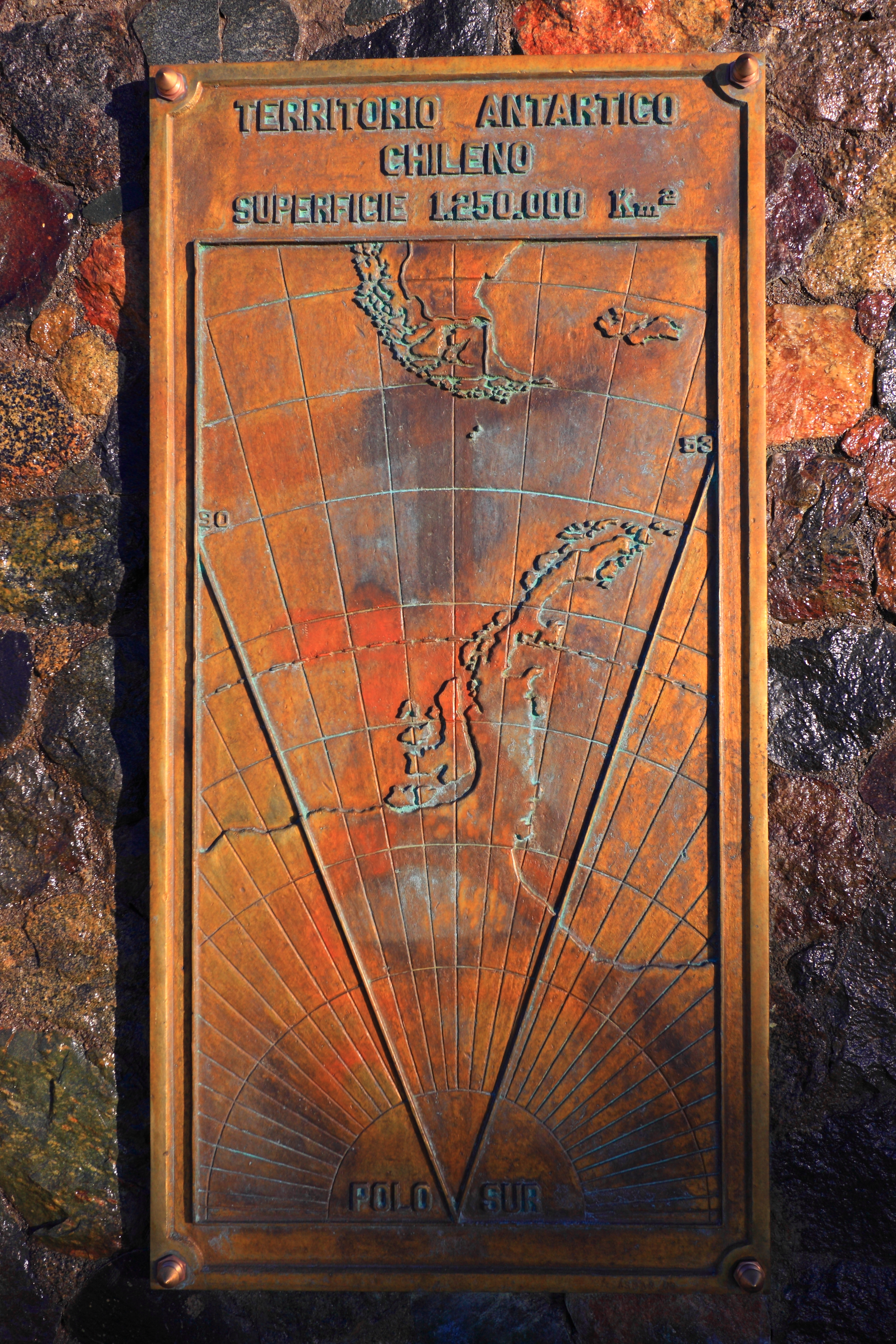 Please, have this description accessible to all by translating it in different languages.